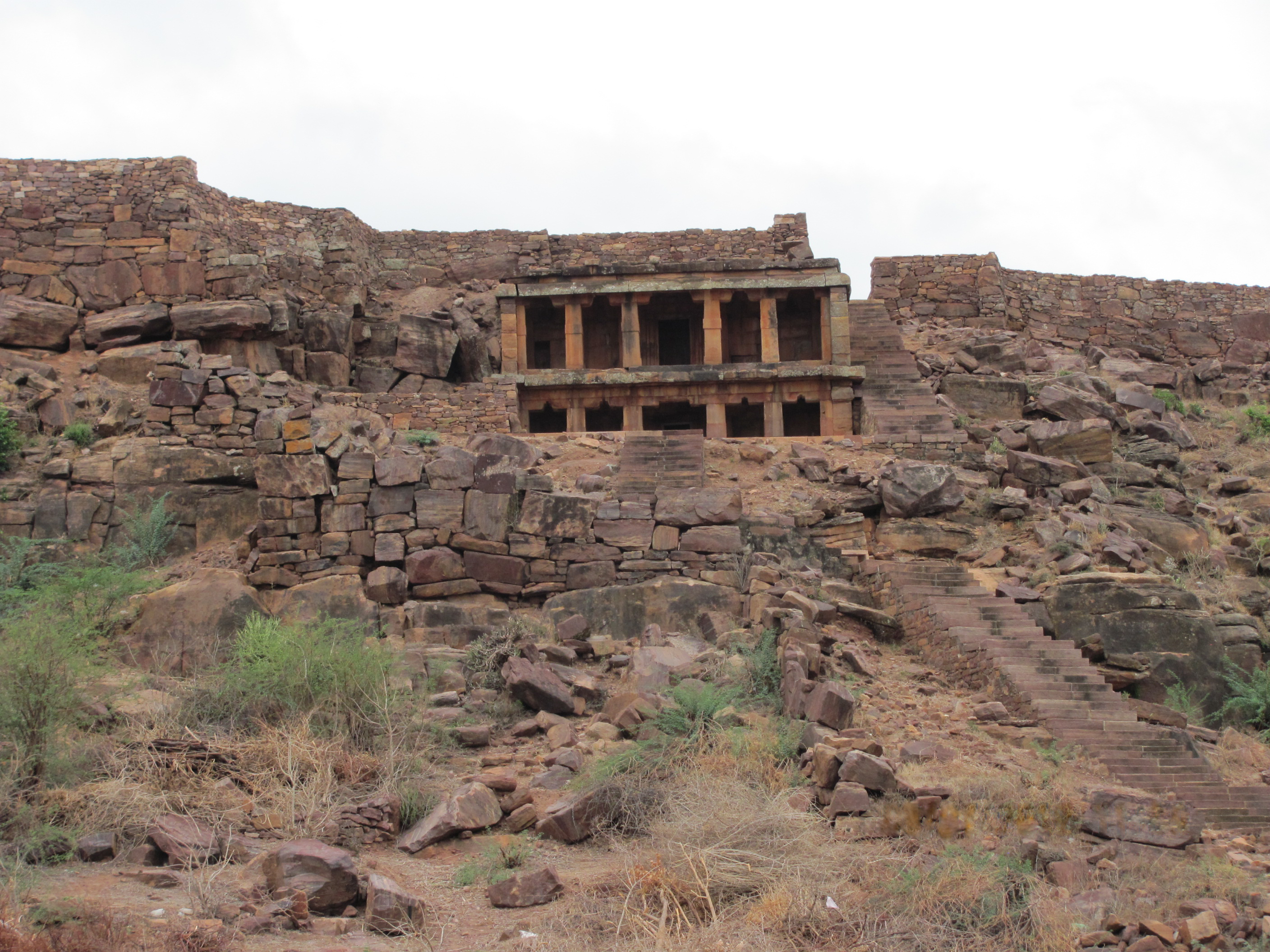 Two storeyed Jaina temple and cave at Meguti hill